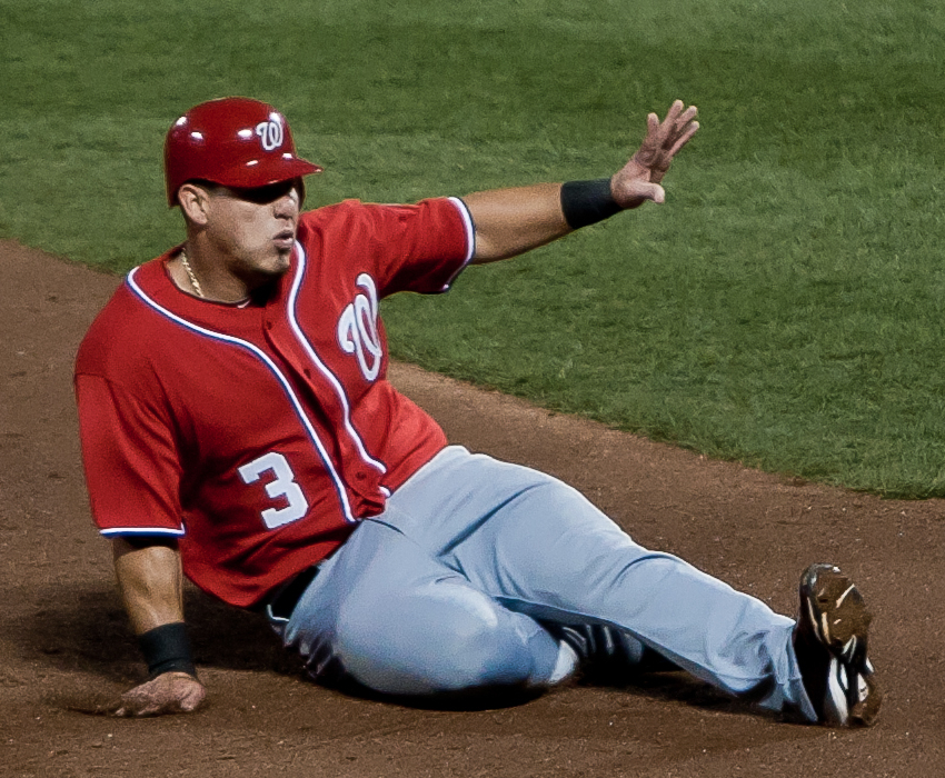 Wilson Ramos